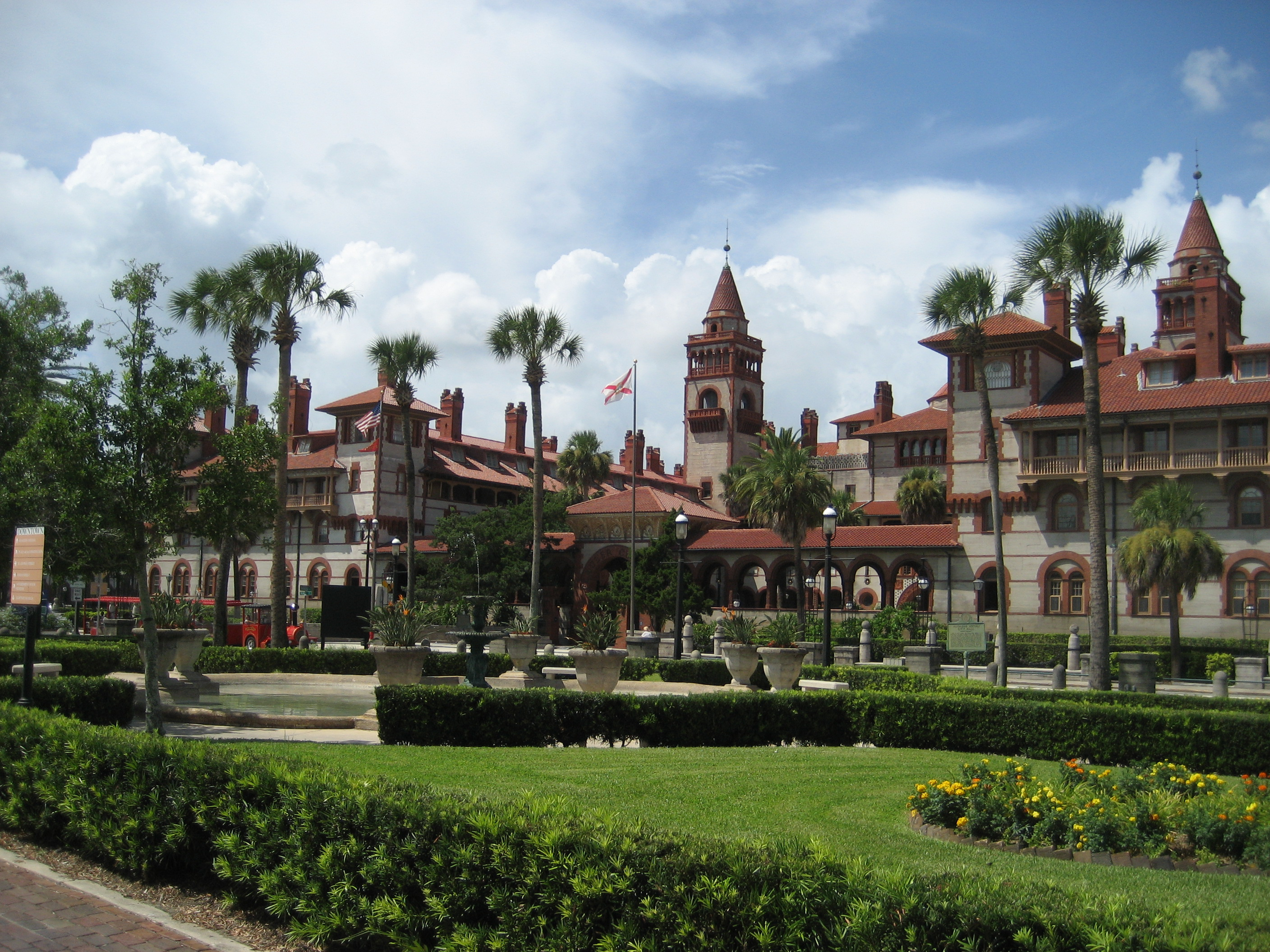 St. Augustine, Florida. View with Flagler College (19th century grand hotel).